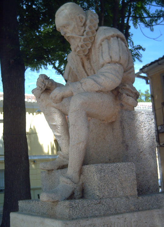 The writer Miguel De Cervantes, by Cayetano Hilario. Public sculpture located in Argamasilla de Alba, Ciudad Real, Spain.